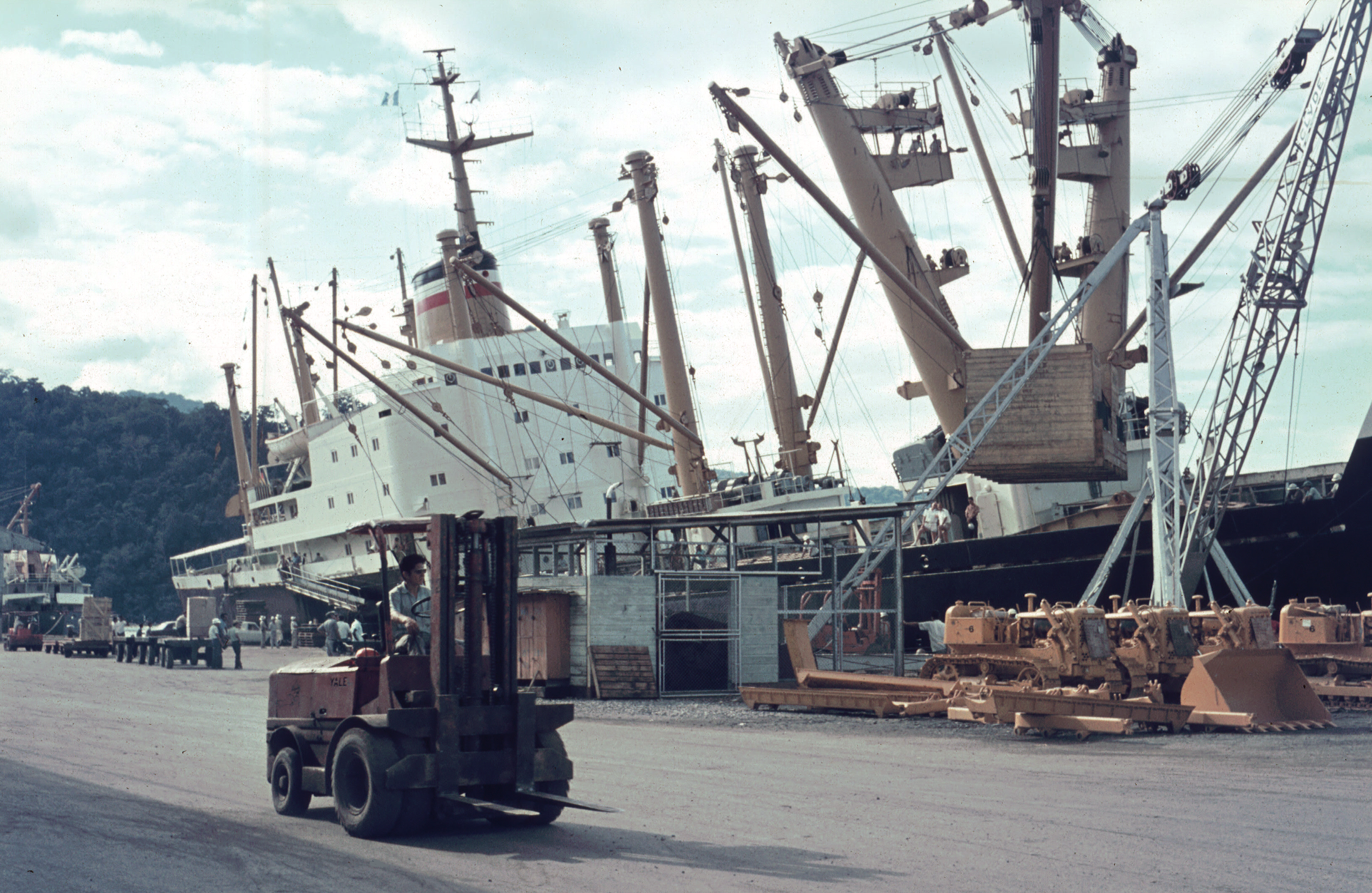 Hapag-Lloyd cargo ship MS Frankfurt when loading heavy cargo, Guatemala 1970-71